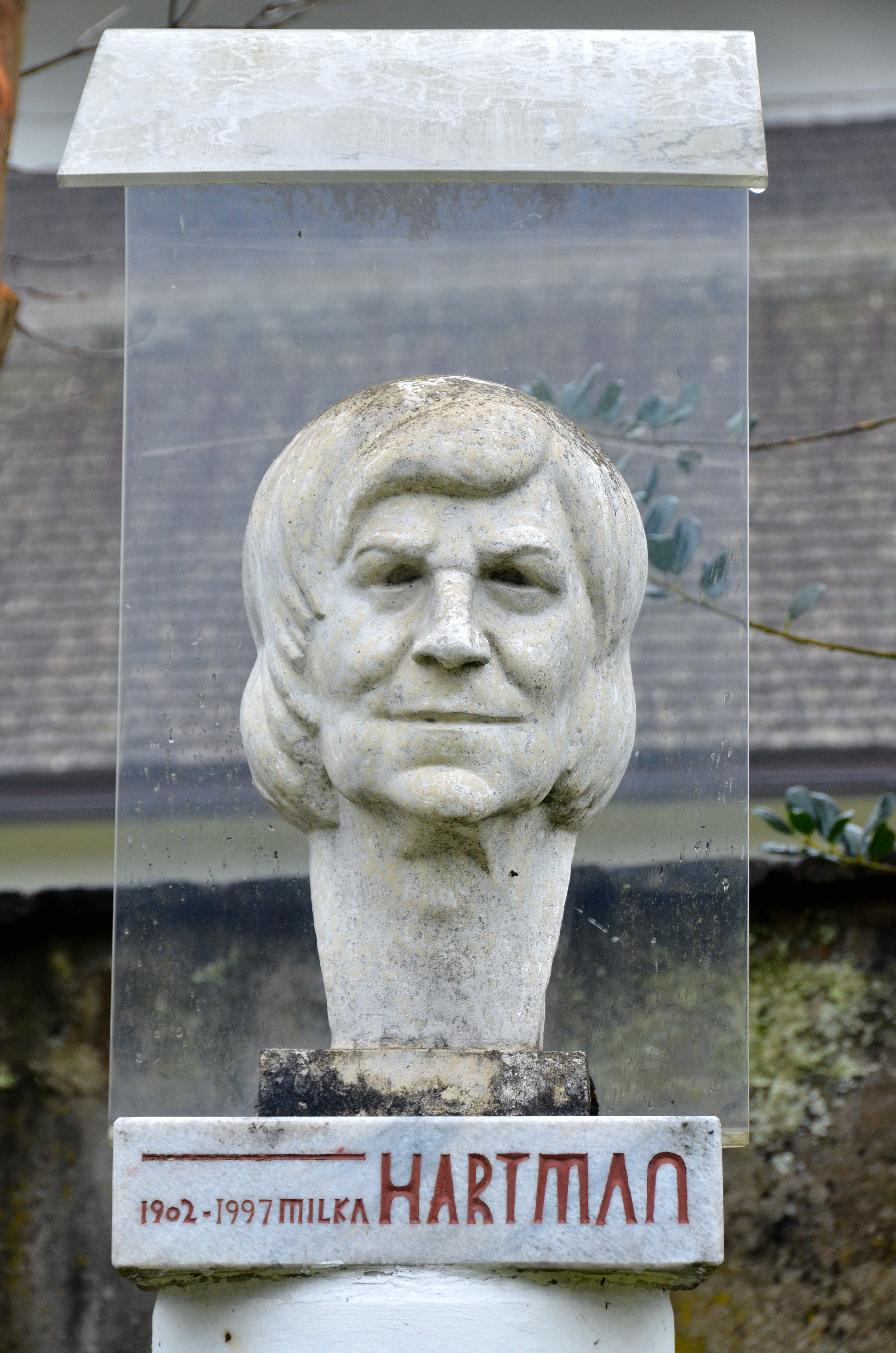 Bust of Milka Hartman, created by the Slovenian sculptor France Gorše at the cultural park at Suetschach, market town Feistritz im Rosental, district Klagenfurt Land, Carinthia / Austria / EU